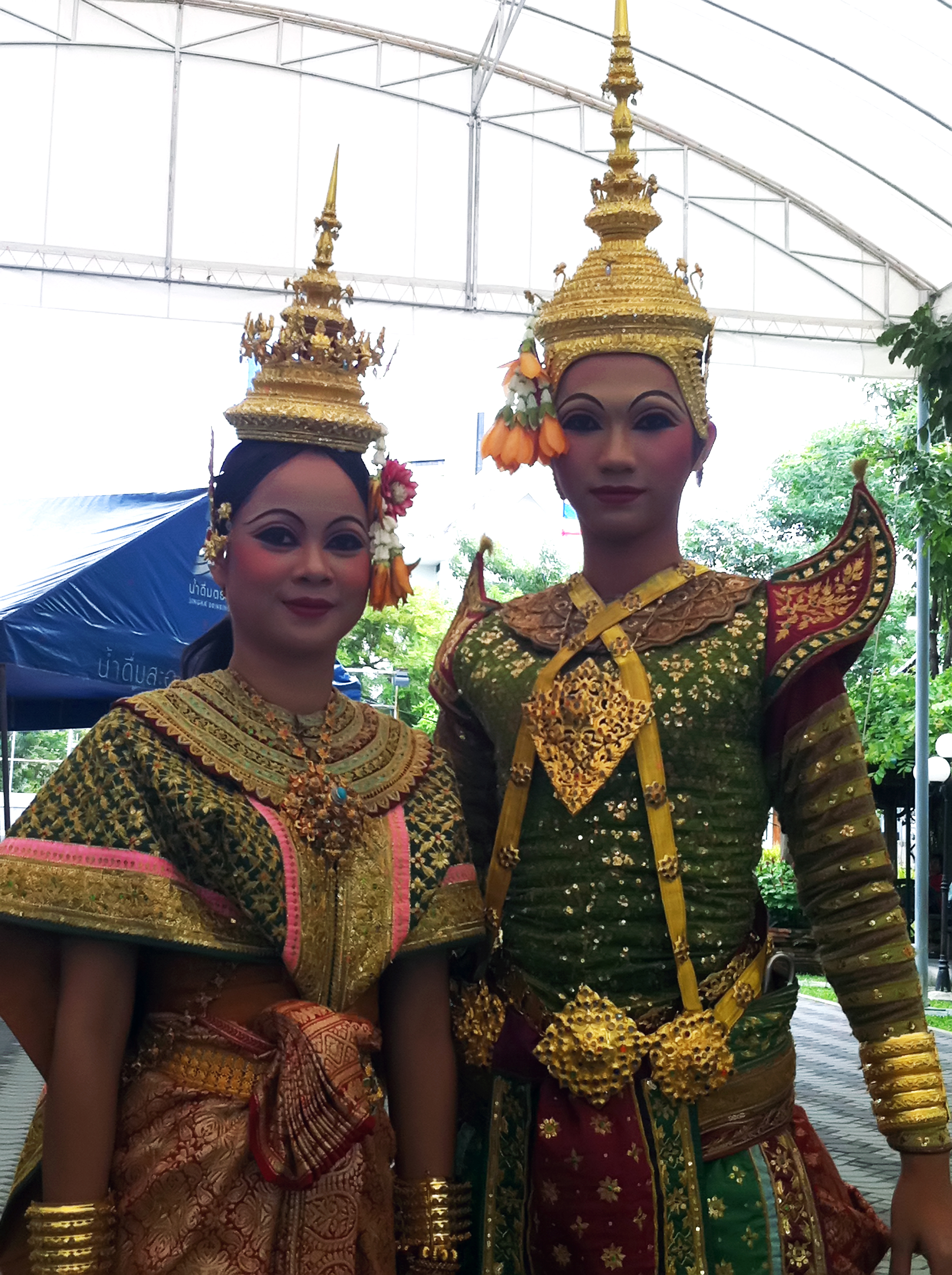 Actor Maiyarap form The Masked Play "The Battle of Maiyarap" 15th-31st July 2011, Main Hall, Thailand Cultural Center